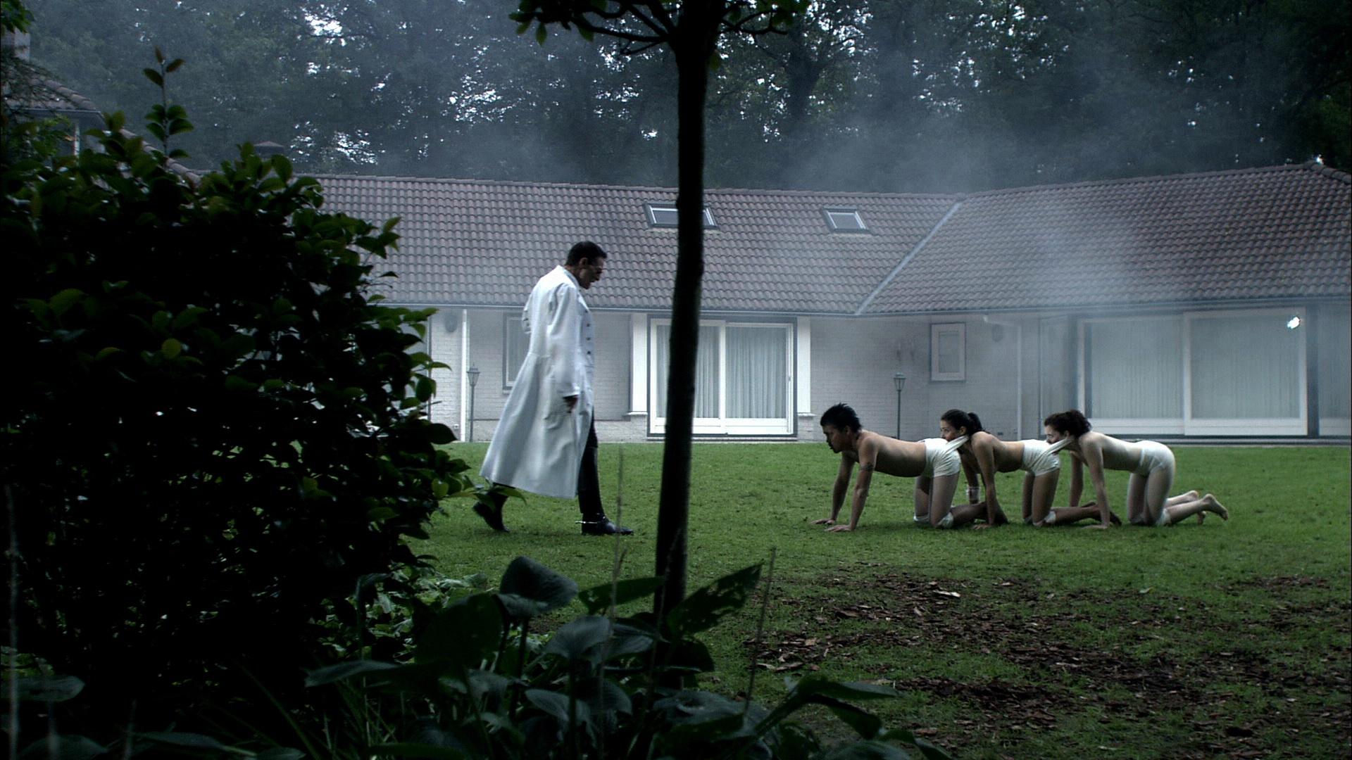 A still image from The Human Centipede. In this scene, Dr. Heiter attempts to "train" his completed centipede.